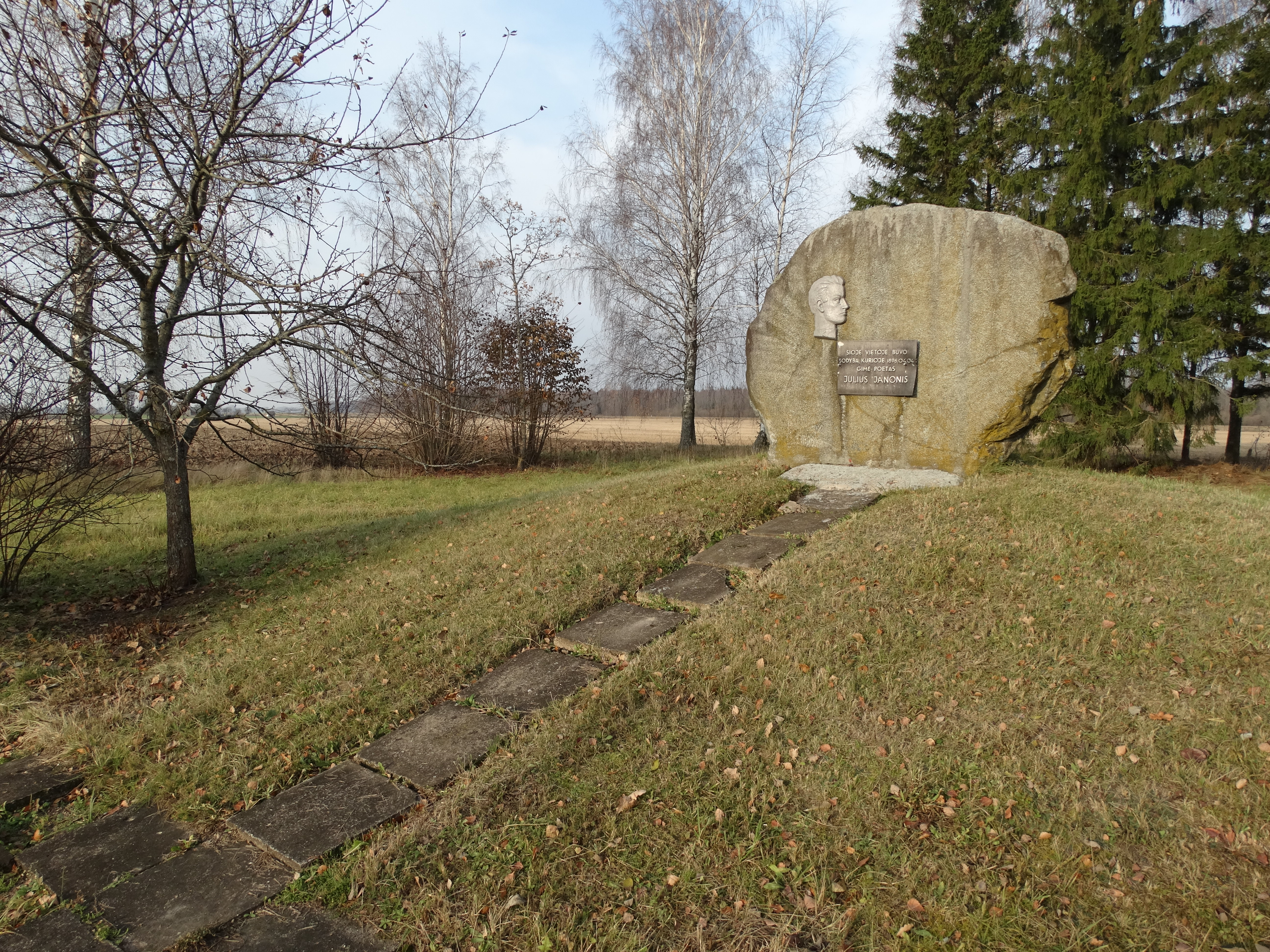 Stone in memory of Julius Janonis, Beržiniai, Biržai district, Lithuania